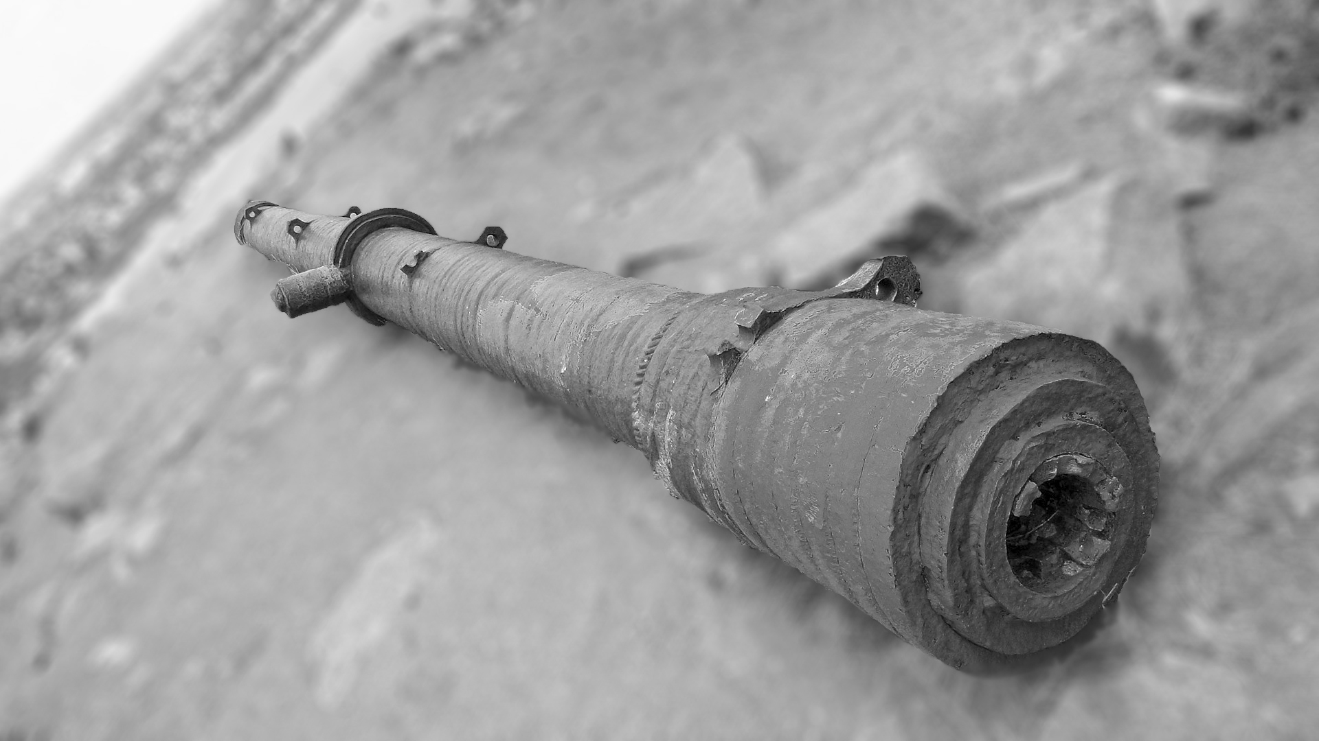 Iron slag and artefacts